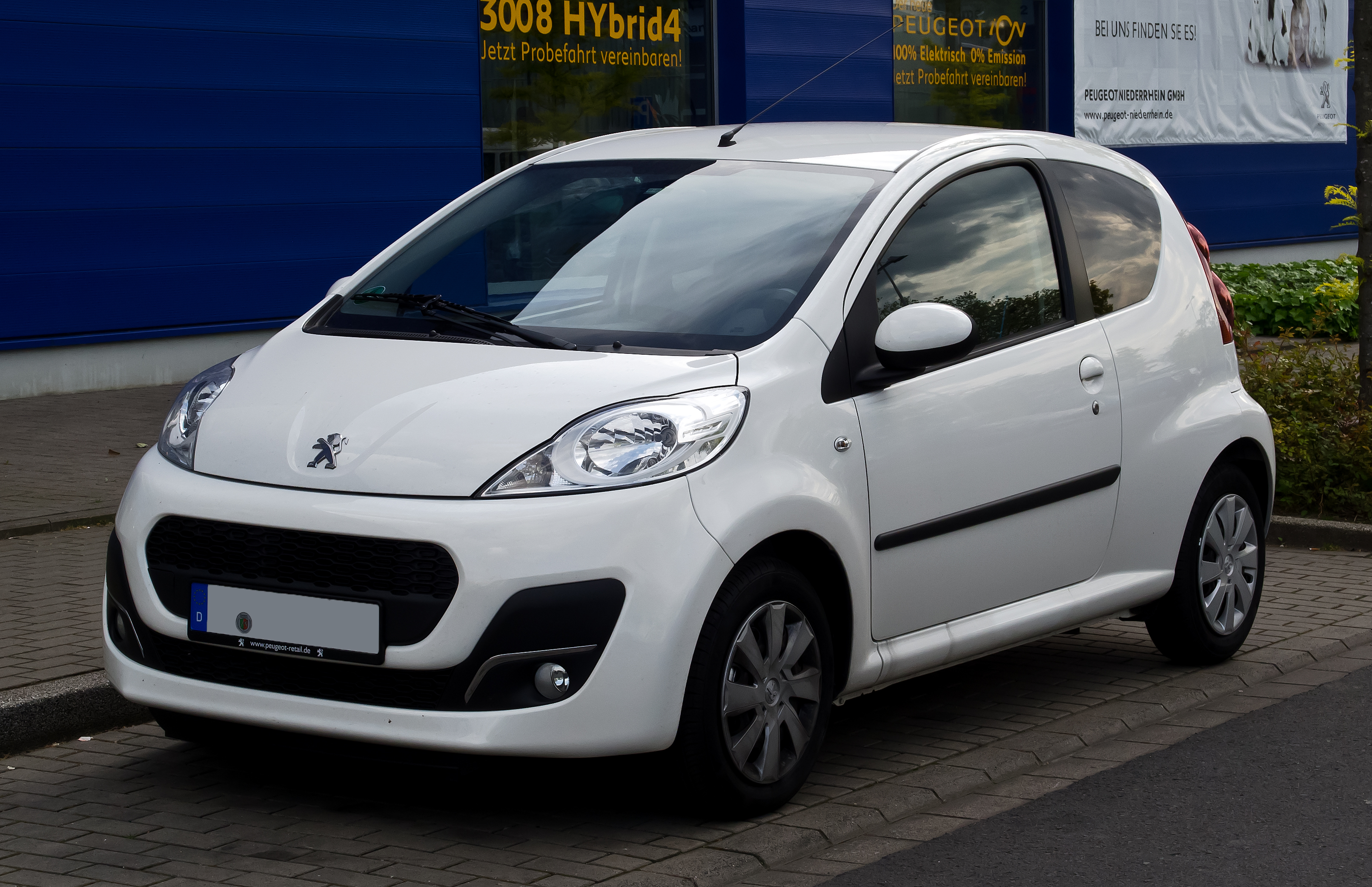 Peugeot 107 68 Active (2. Facelift)